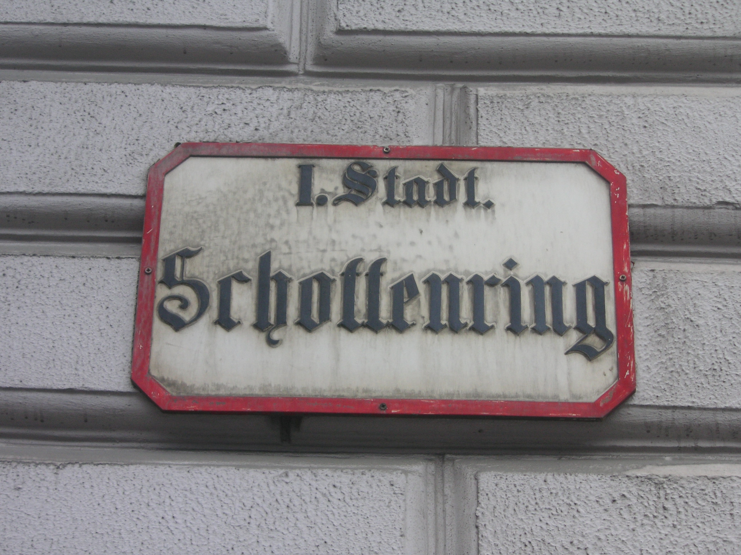 A street sign at the Ringstraße, Innere Stadt, Vienna, Austria. Photo by KF, October 26, 2005.